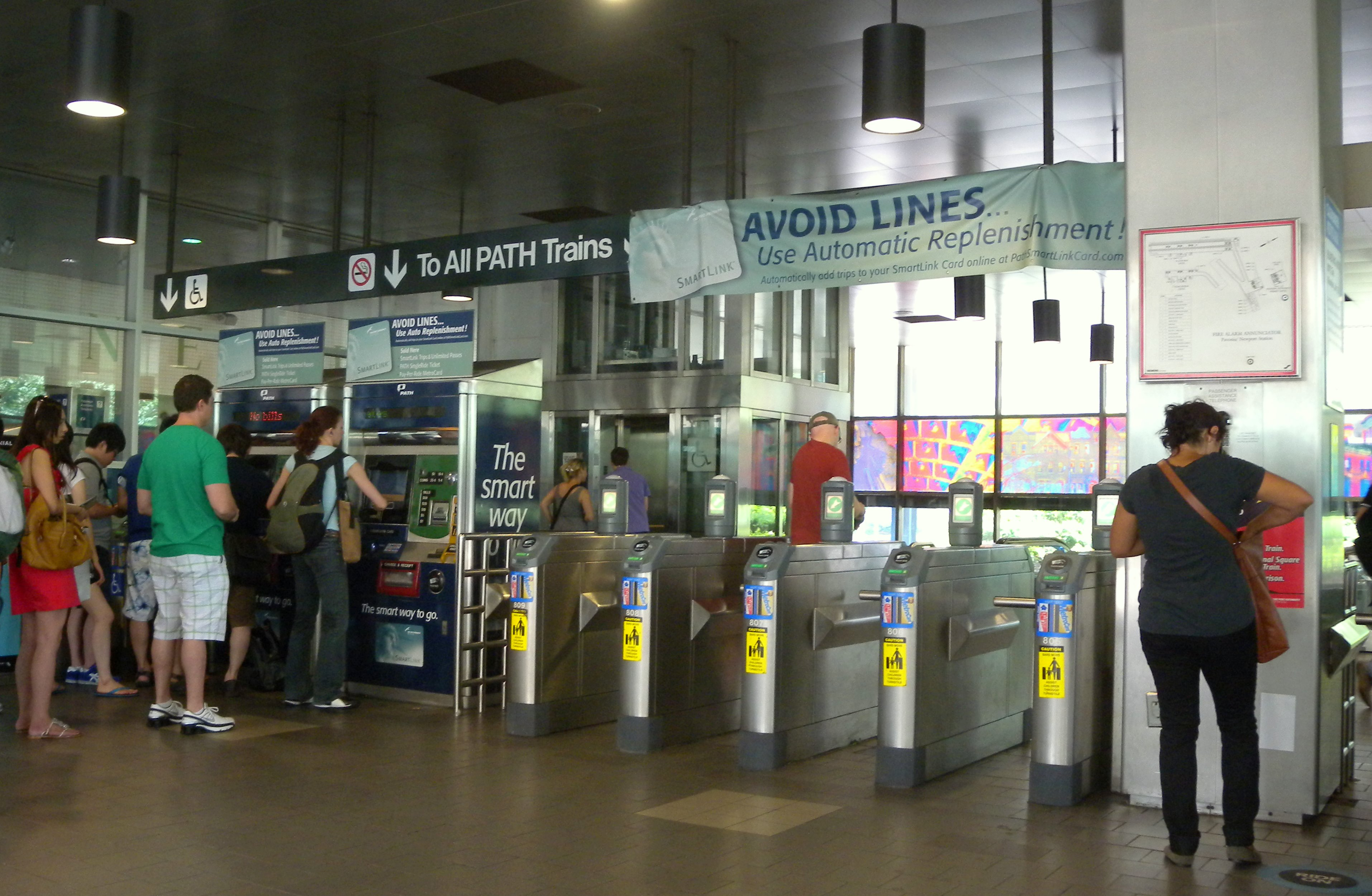 Pavonia fare control.